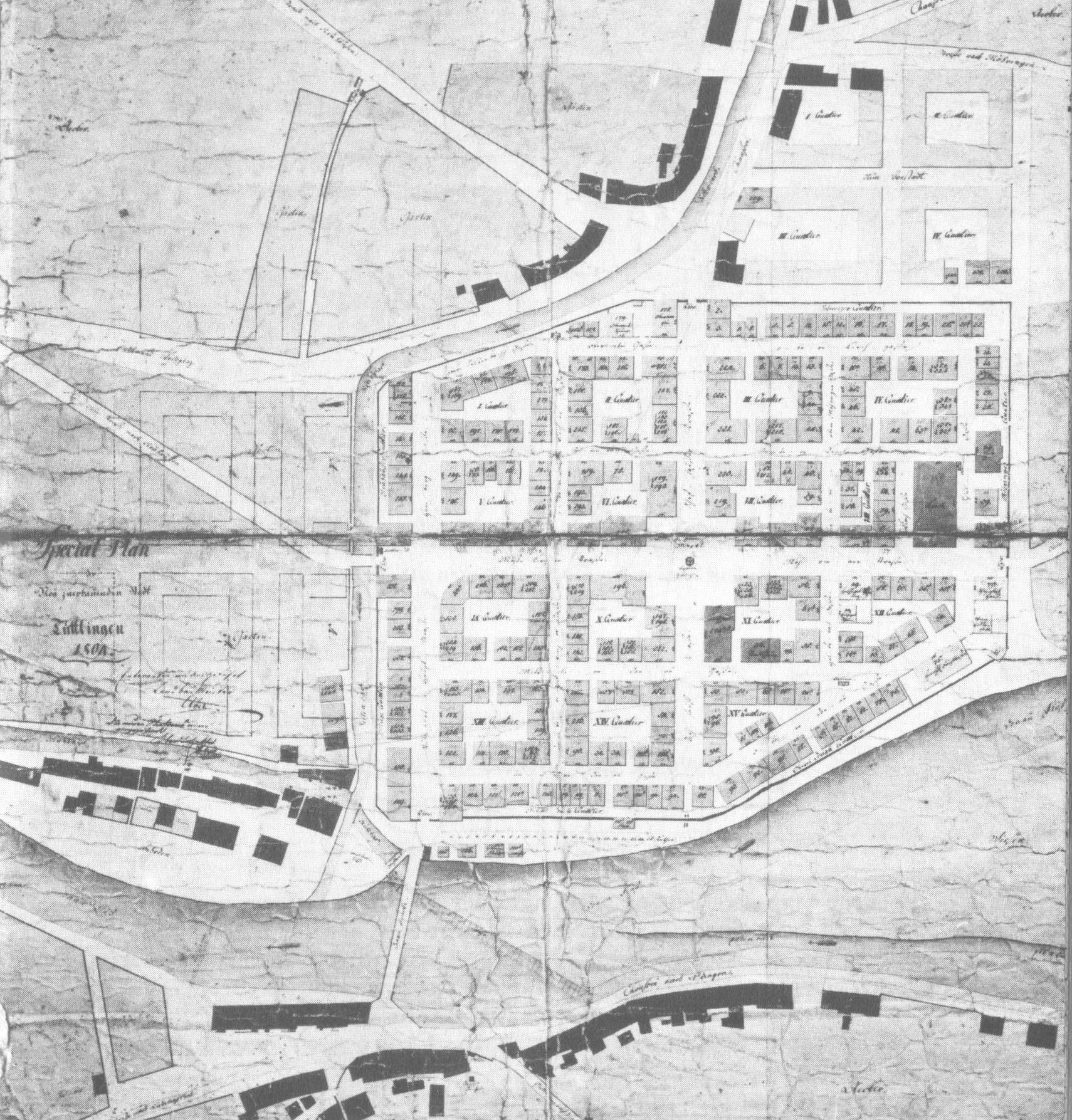 Carl Leonard von Uber's original plan for the reconstruction of Tuttlingen, drwan in 1804